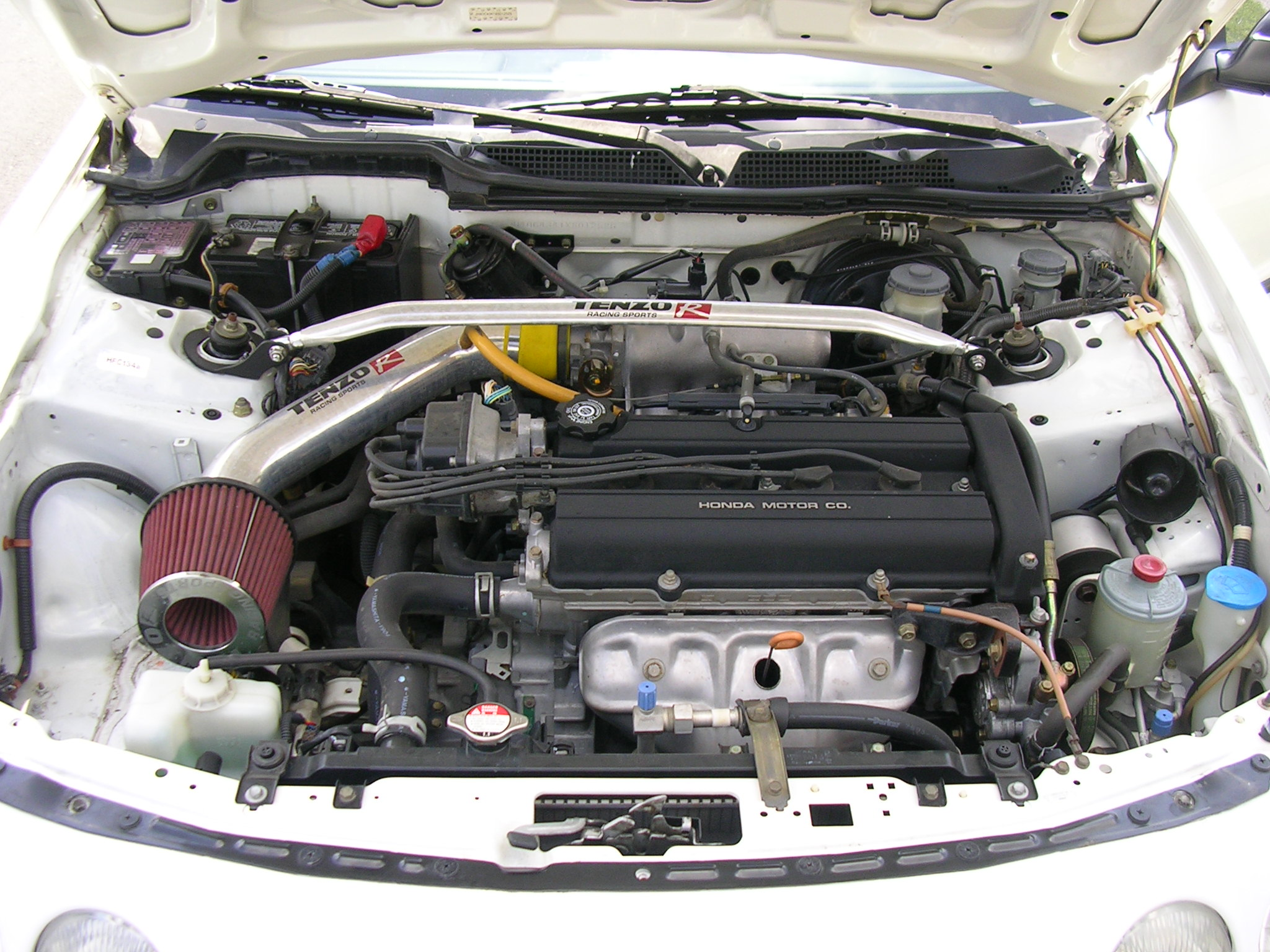 B18B1 Engine (RS 1999). Photo by Radamés González (2005)